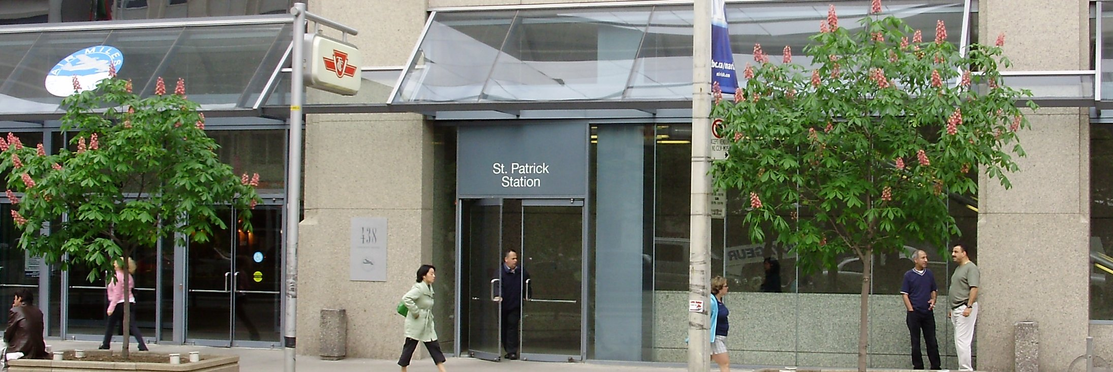 An entrance to the Toronto Transit Commission's St. Patrick station in Toronto, Canada.